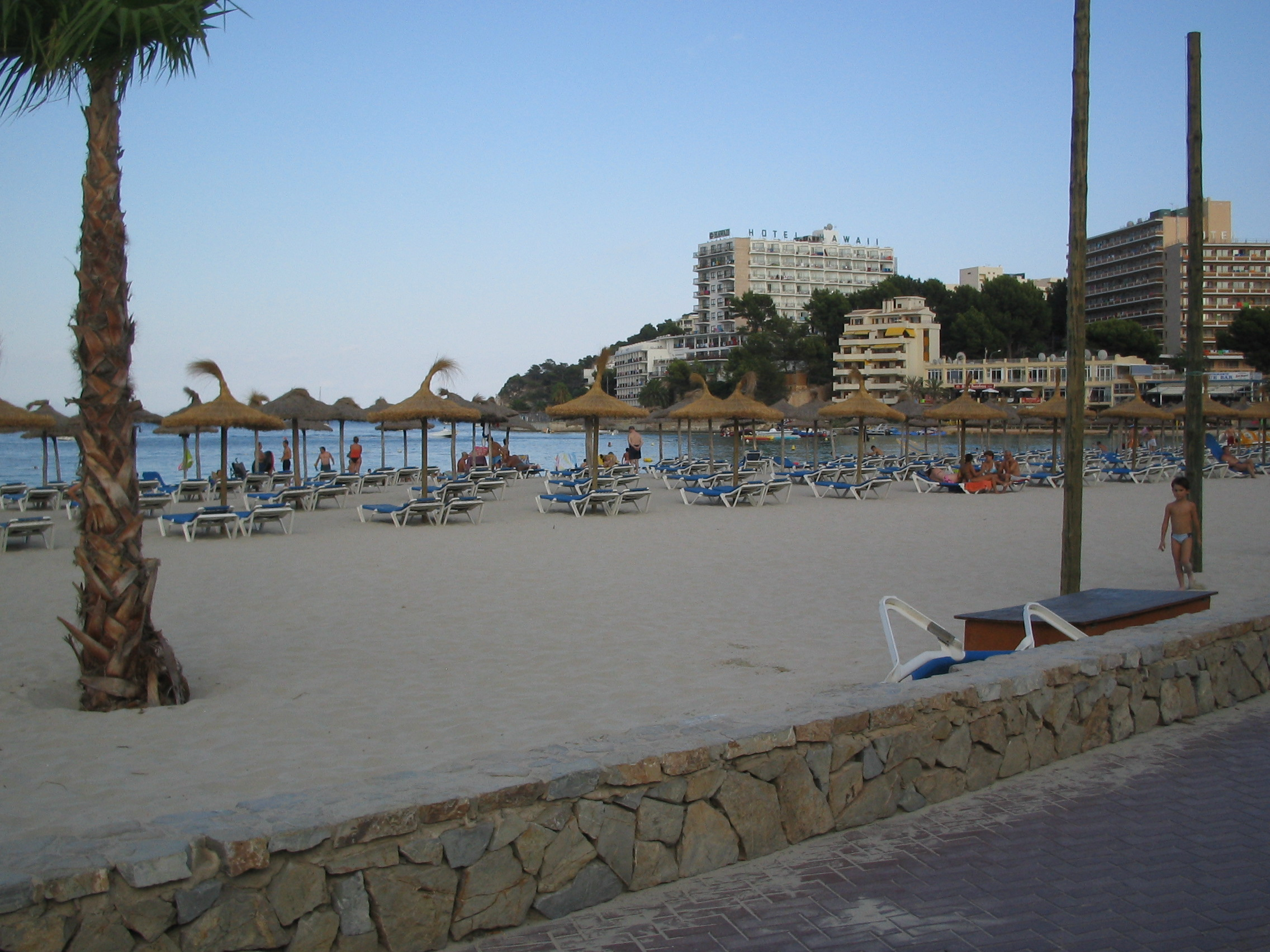 Beach of the holiday resort called Palma Nova in Calvià, Mallorca, Spain.